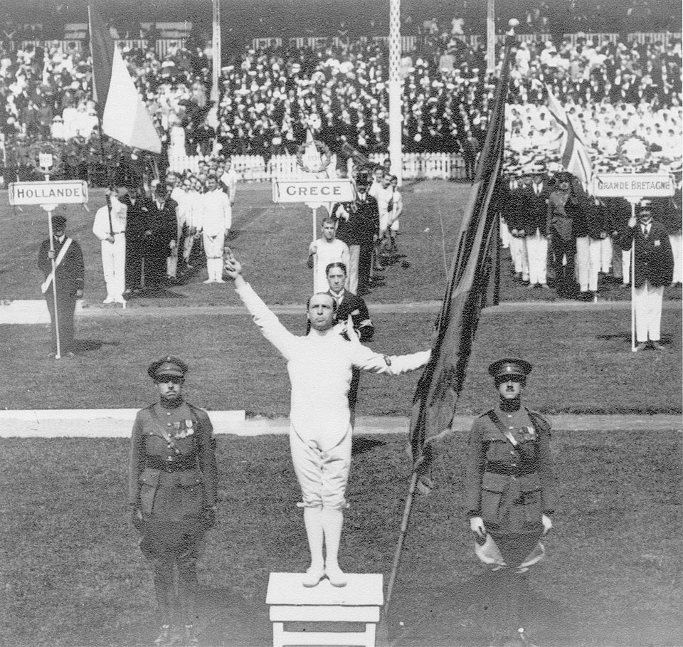 Victor Boin, a Belgian who practised fencing and water polo at Olympic level, delivered the first Olympic oath in Games history. Antwerp, 1920 Olympics